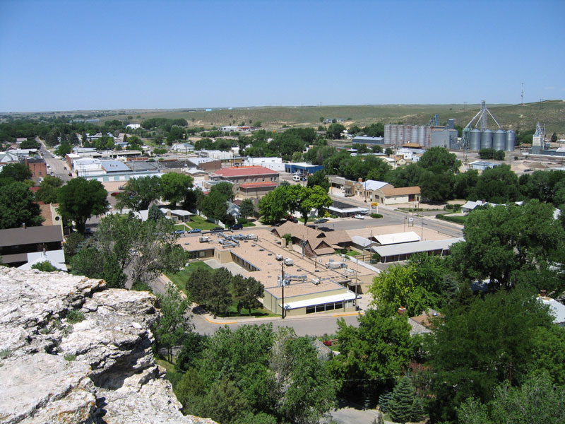 Wray, Colorado Selbst fotografiert im Juni 2004